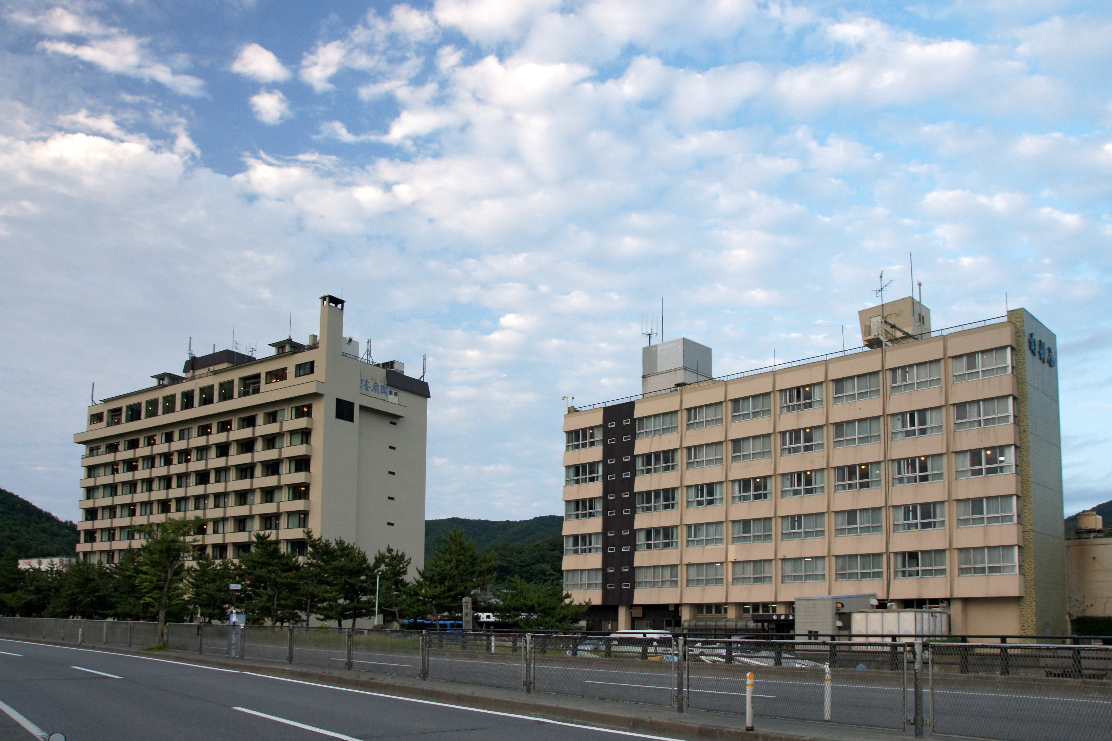 Hotel Nanbuya and Hotel Kaisenkaku in Asamushi Onsen, Aomori, Aomori prefecture, Japan.